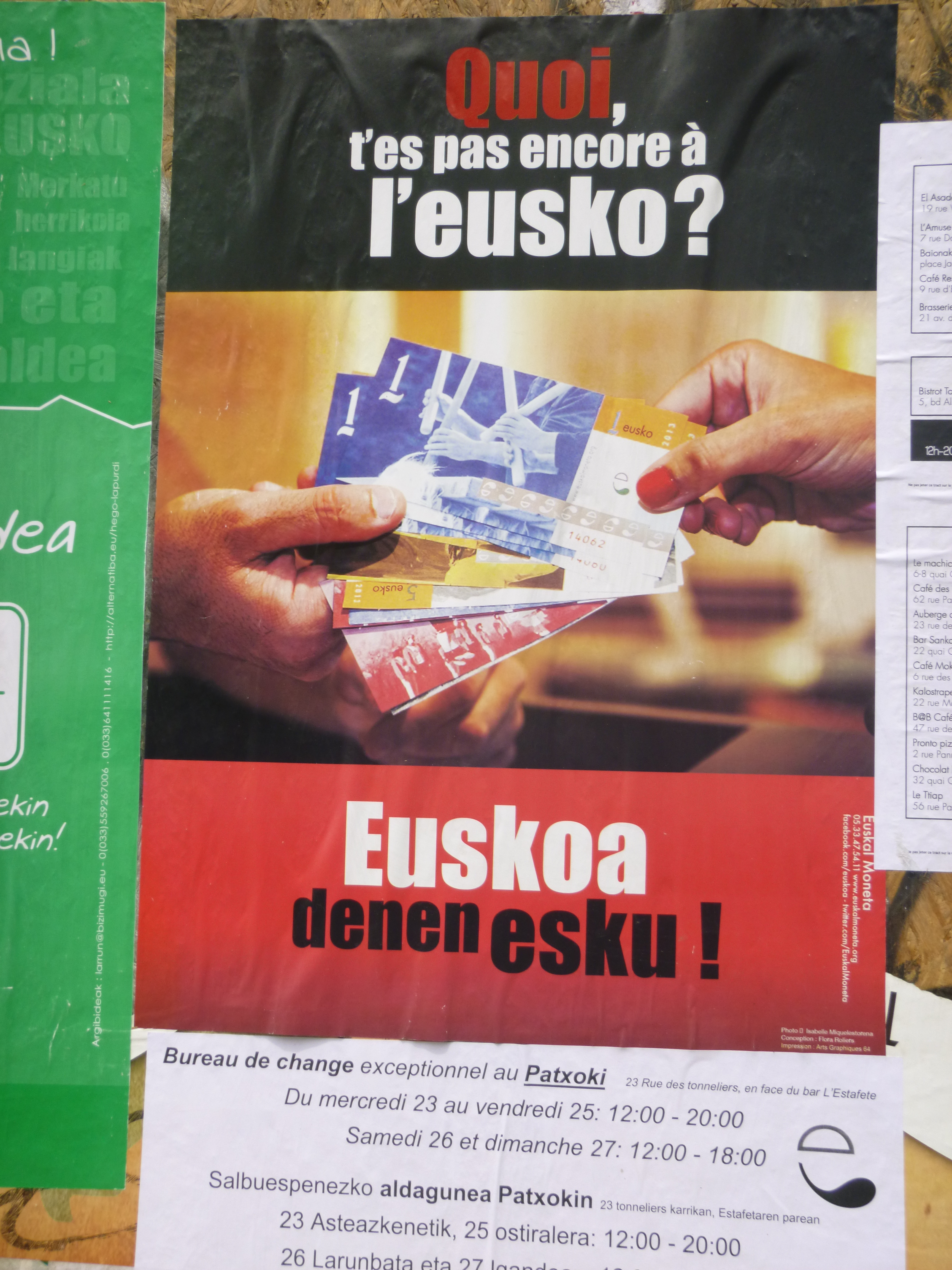 Poster about Eusko